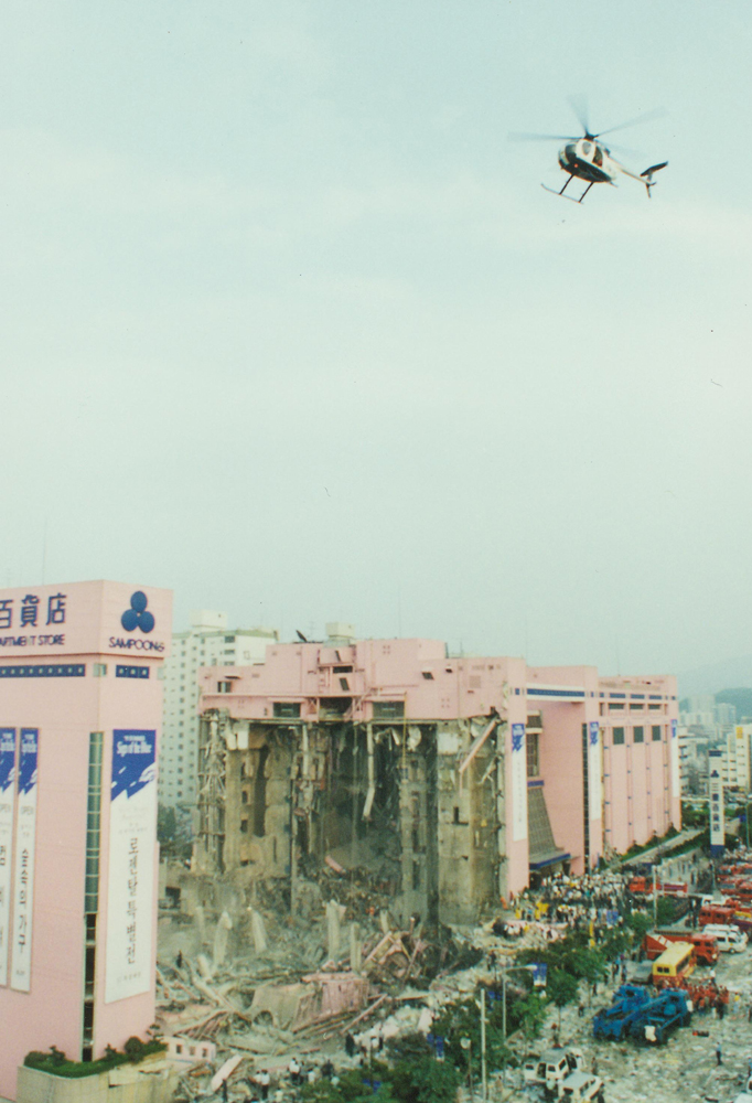 서울특별시 소방재난본부 소장 사진. photos of Seoul Metropolitan Fire & Disaster Headquarters.